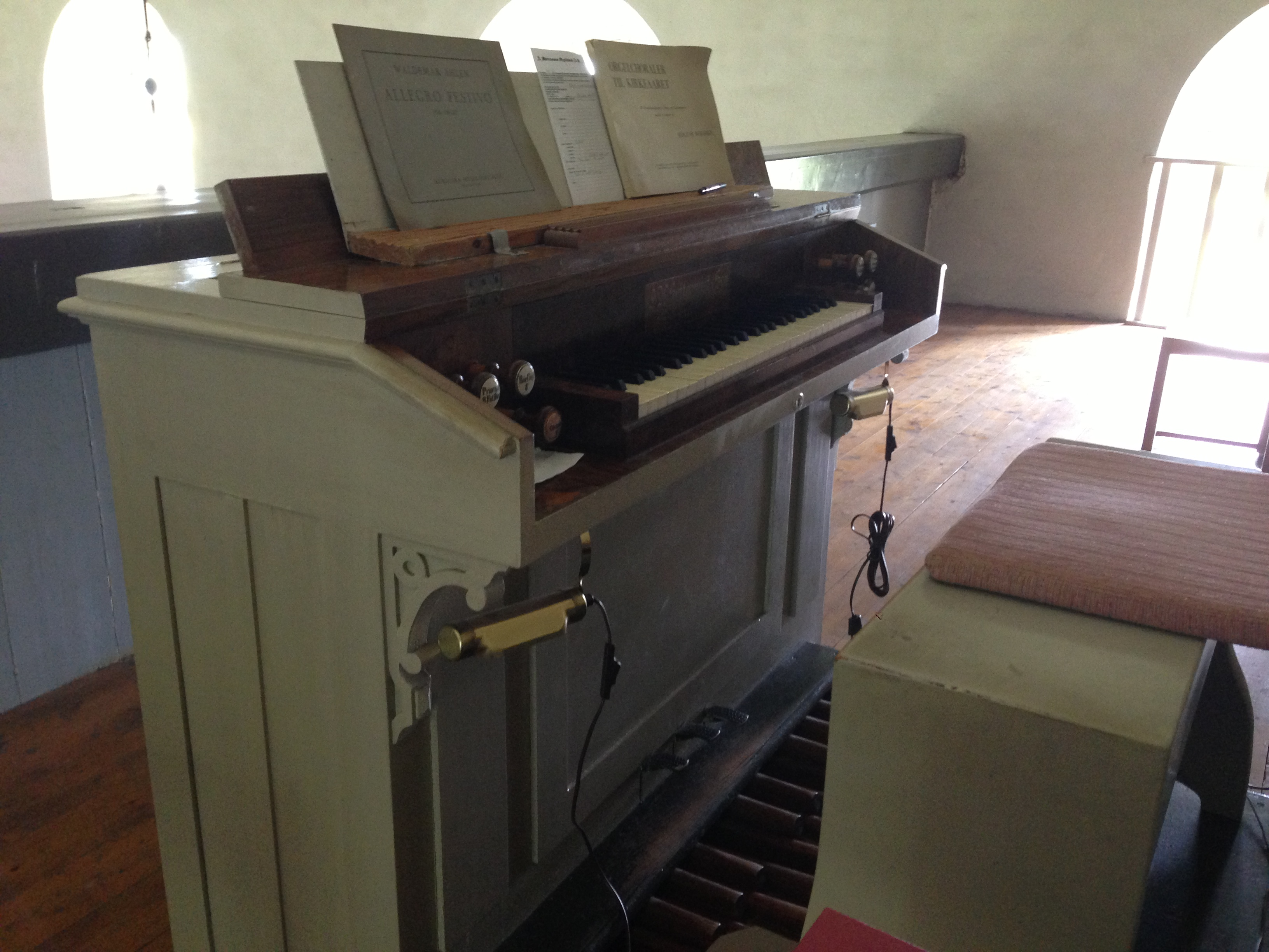 Organ in Smedby kyrka, Öland, Sweden